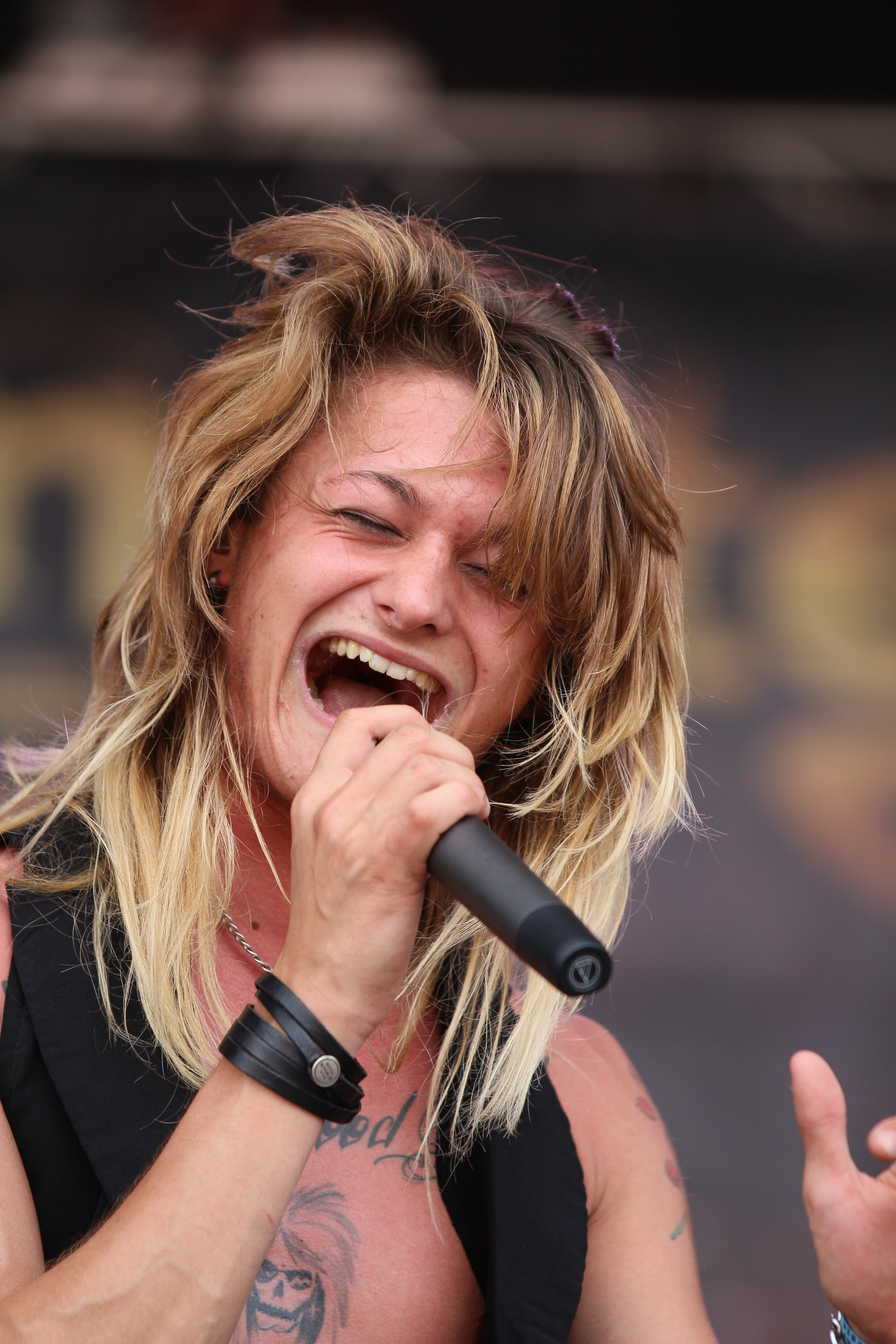 The German metal band Kissin' Dynamite at the Rockharz Open Air 2014 in Ballenstedt/Germany